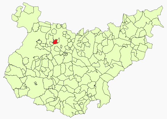 La Garrovilla